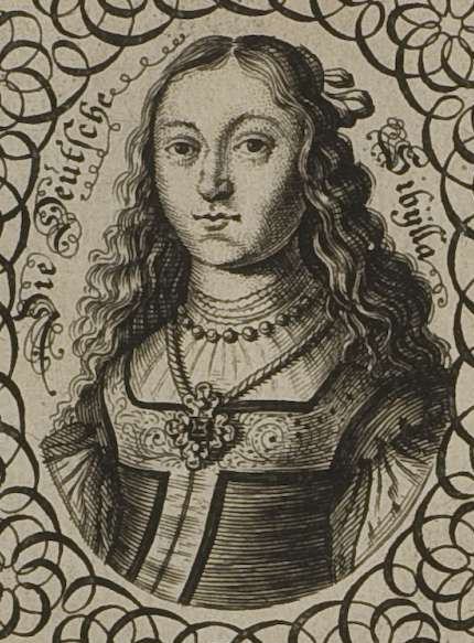 Sibylla Schwarz (1621–1638), image from Deutsche Poëtische Gedichte. 1650